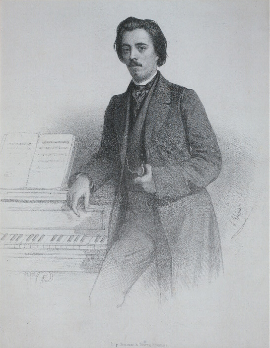 The belgian pianist Louis Brassin (1836—1884)